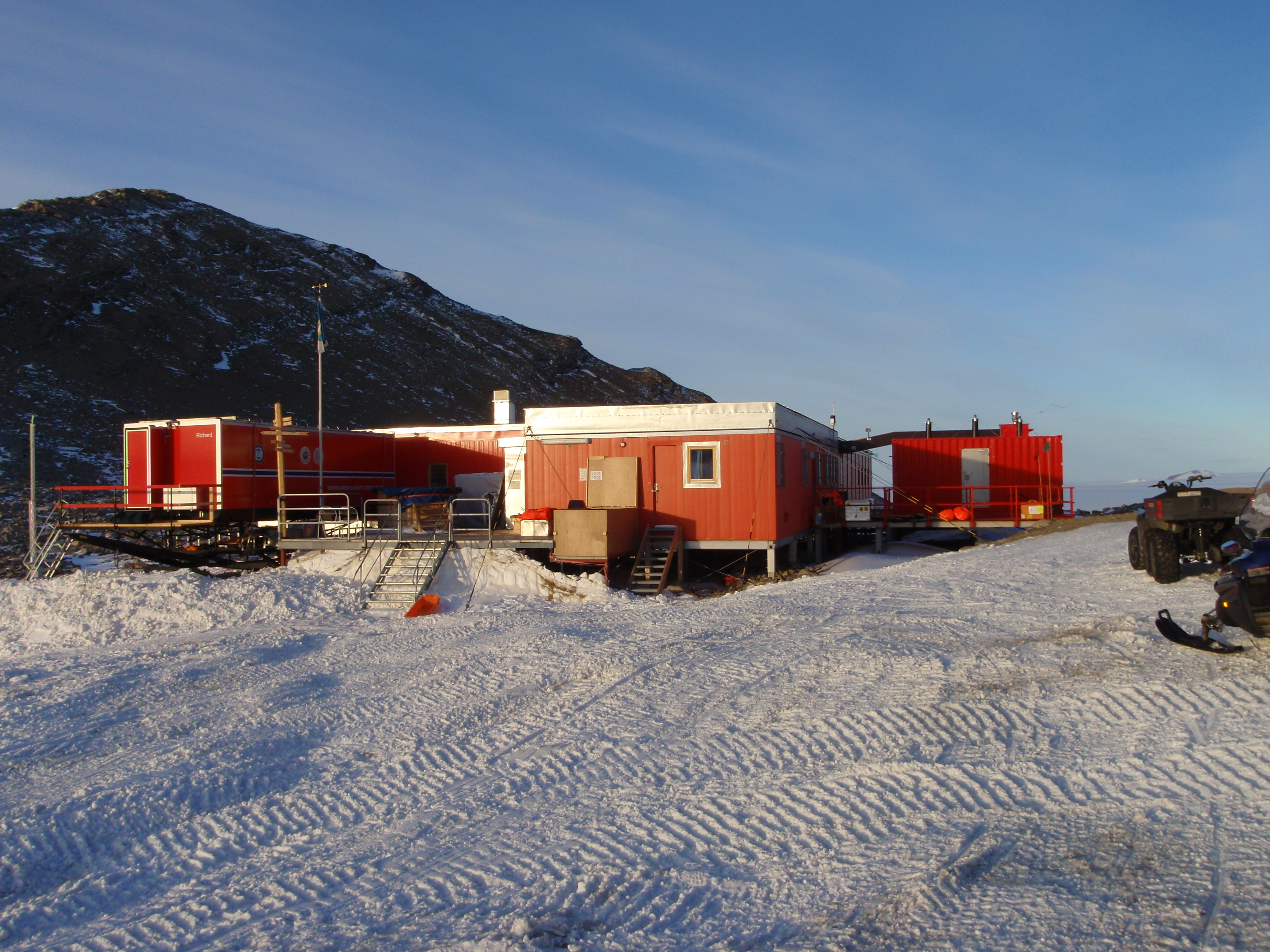 The Norwegian research station in Dronning Maud Land, Antarctica - Troll. Norsk (nynorsk): Den norske forskningsstasjonen i Dronning Maud Land, Antarktis - Troll